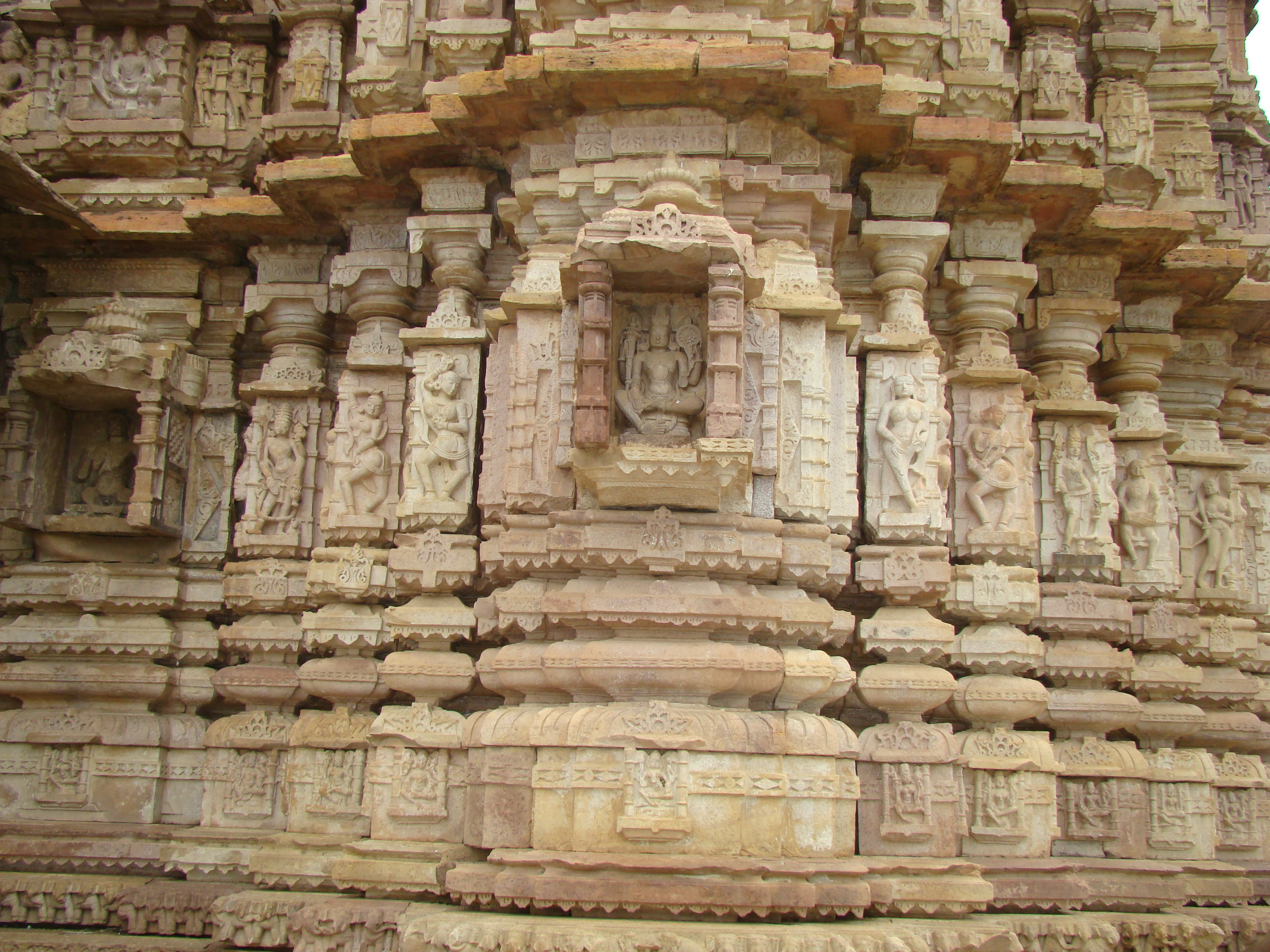 Murtishilp of undeswar temple at Mahakal temple complex , Bijoliyan